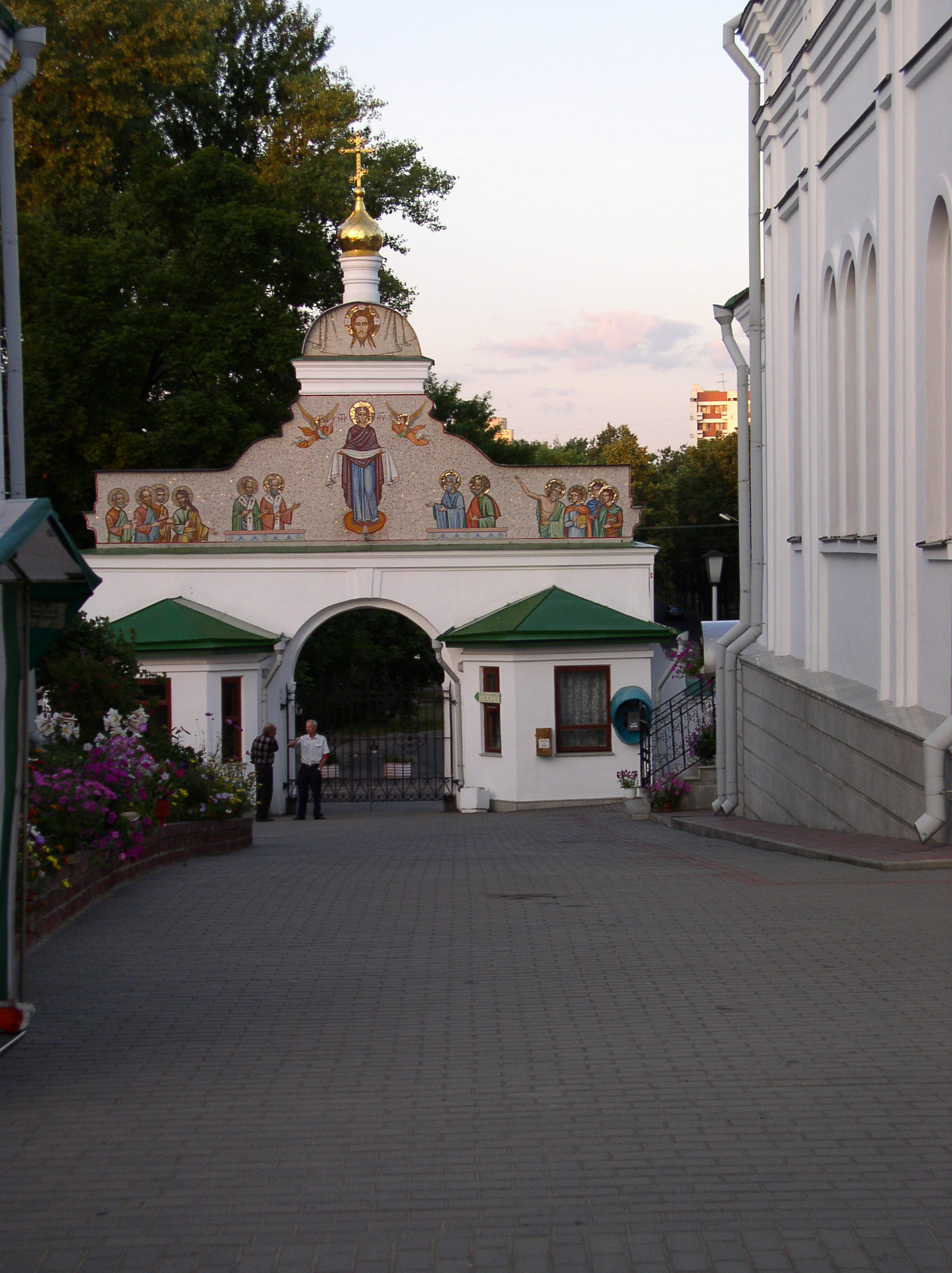 Church of Saint Mary Magdalene, Minsk, Belarus.